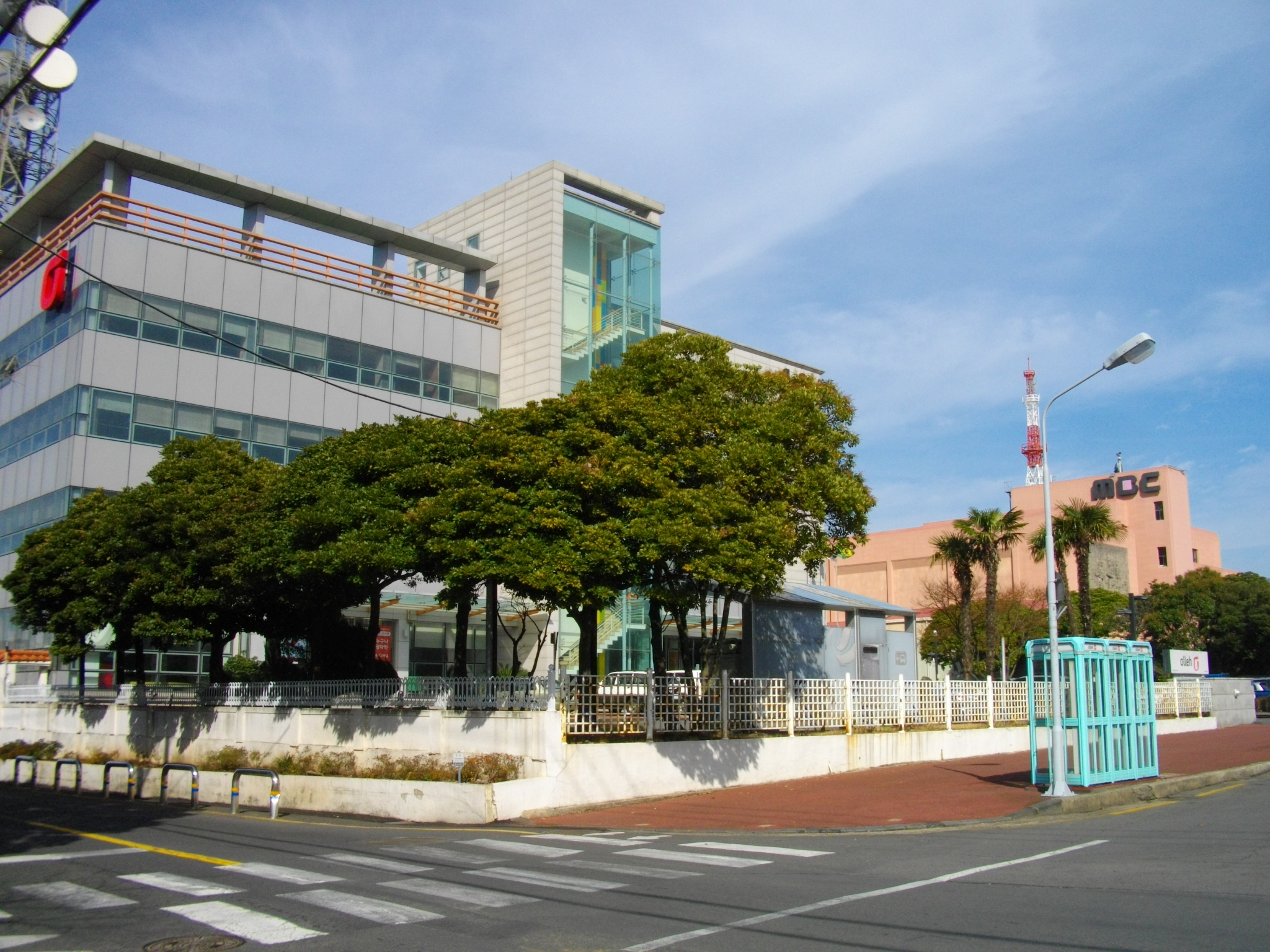 KT Sinjeju and MBC Jeju buildings